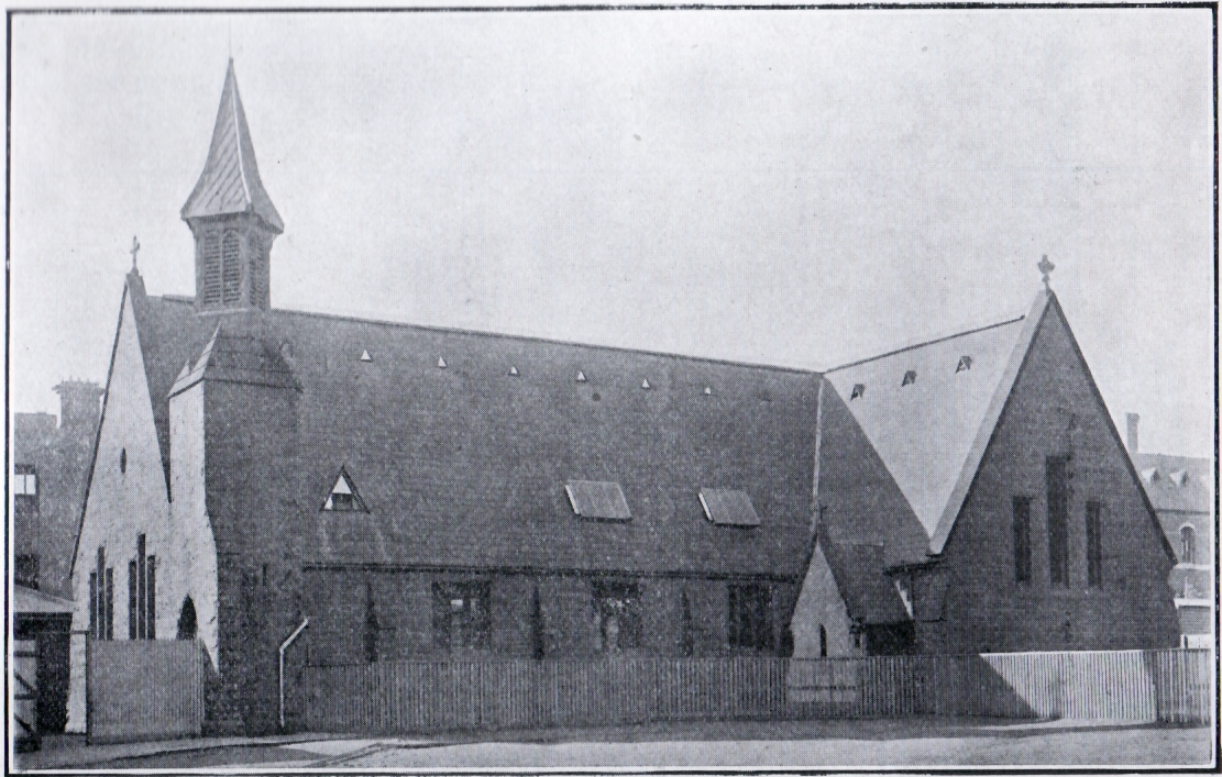 Photograph of bulestone building used as both school and church